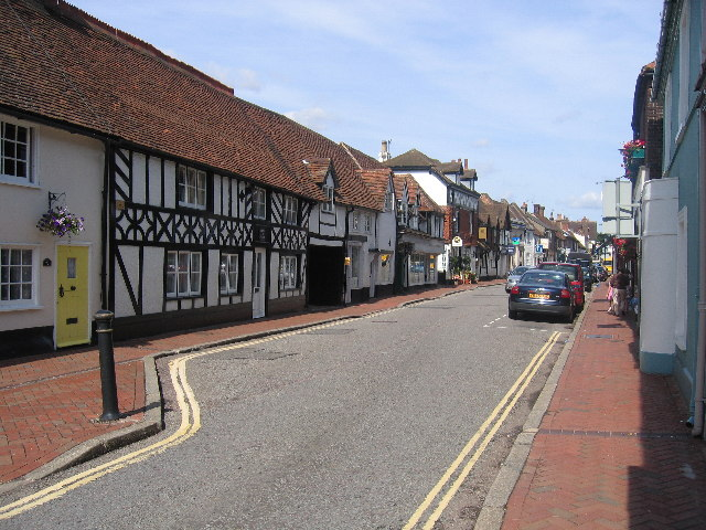 High Street, Gt Missenden.